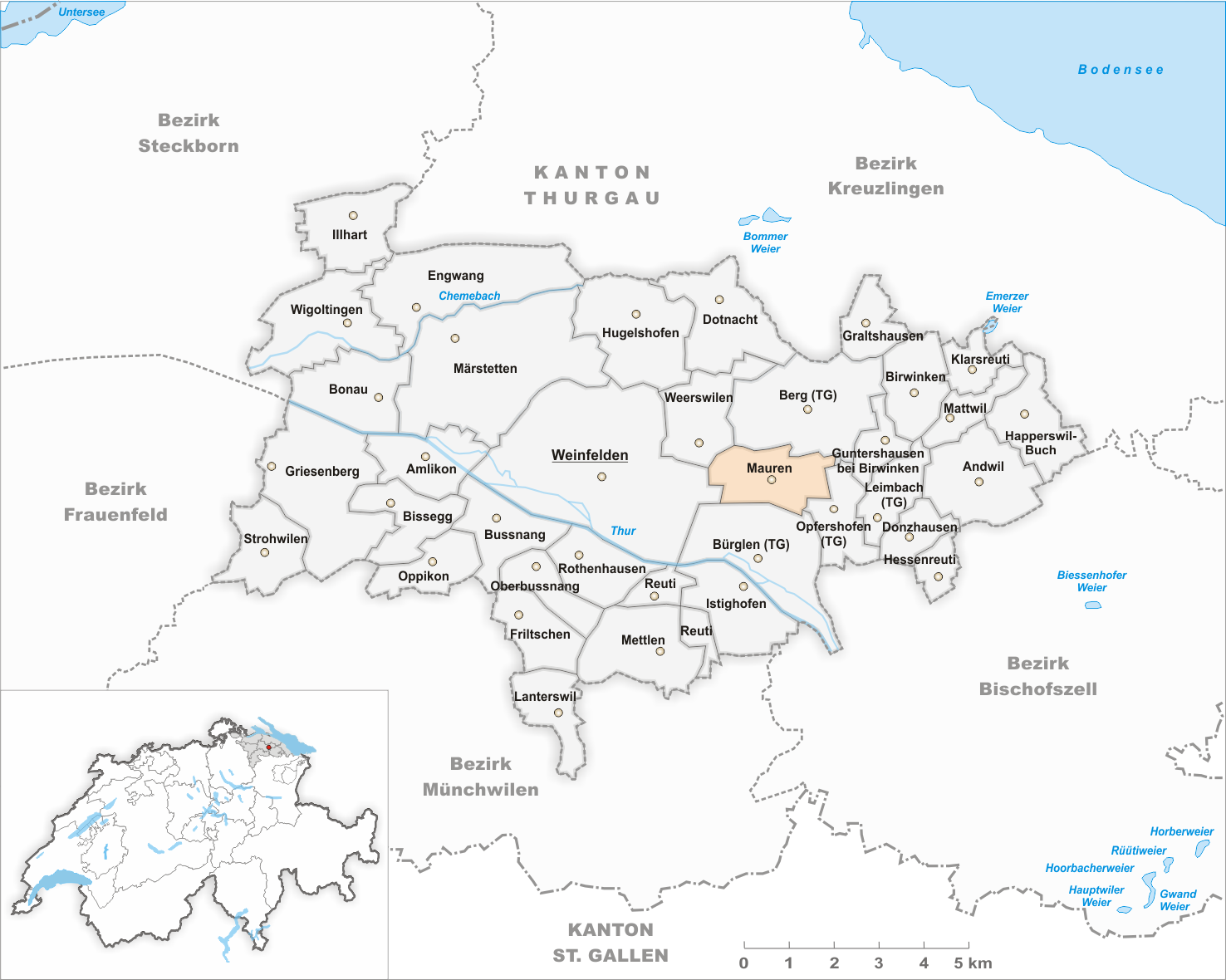 Municipality Mauren